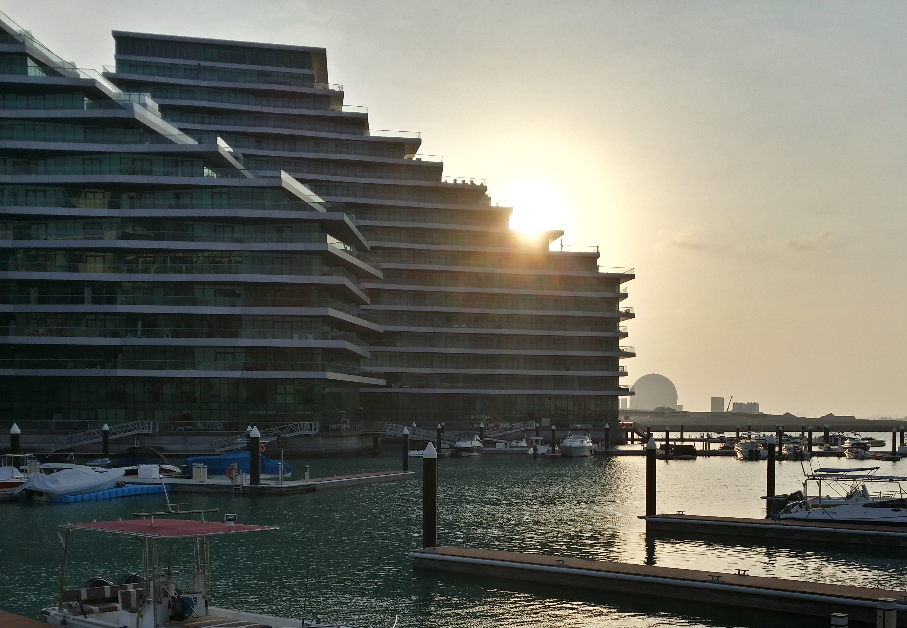 Scenery of Al Bandar Marina, Al Raha Beach, Abu Dhabi, UAE taken from Ornina, a loundge cafe on the deck.